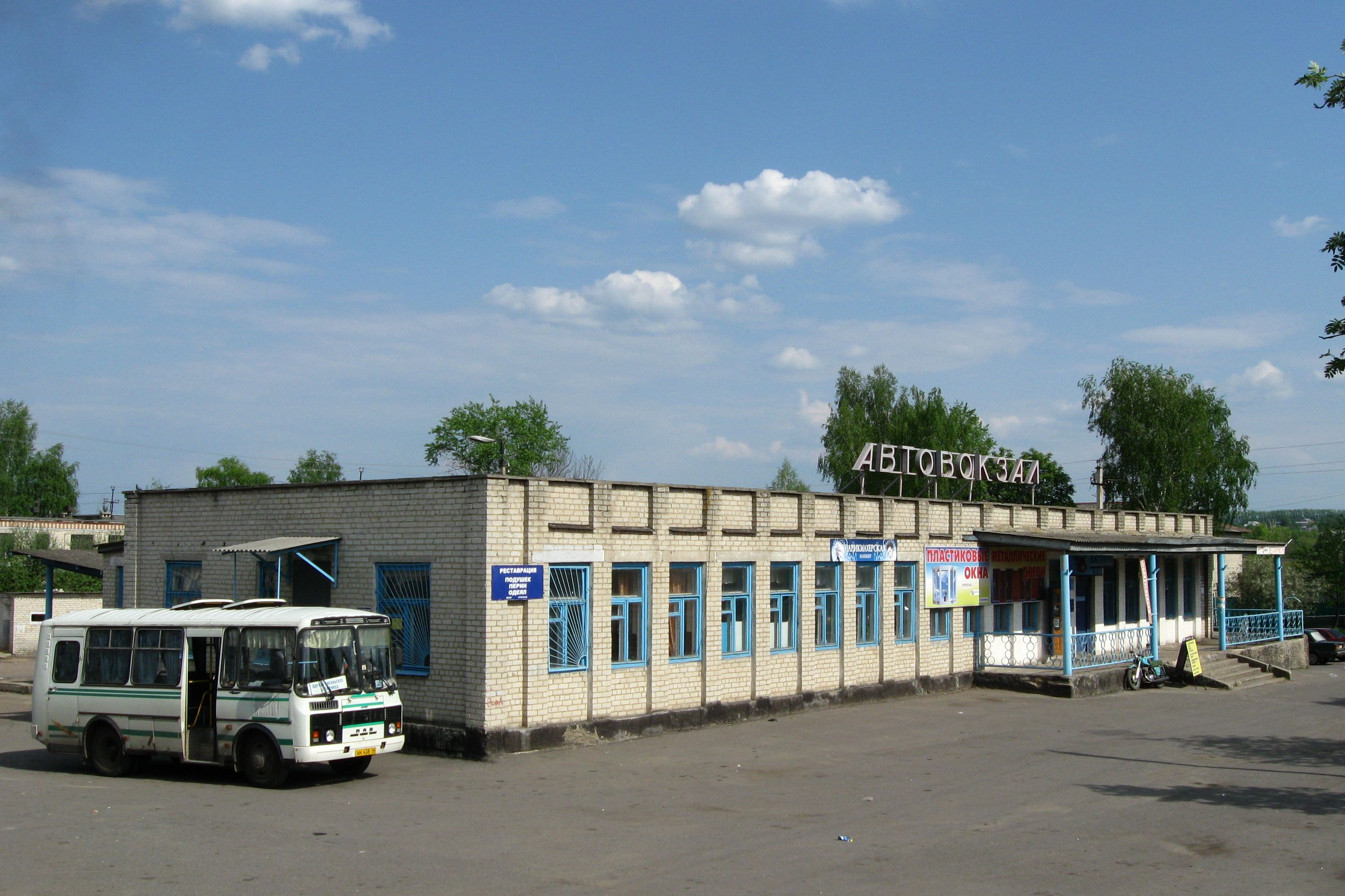 Shchigry Bus Station